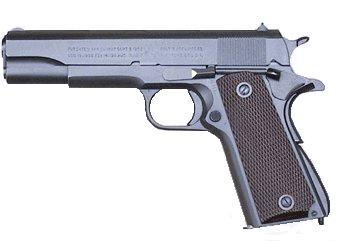 Firearms image for userbox